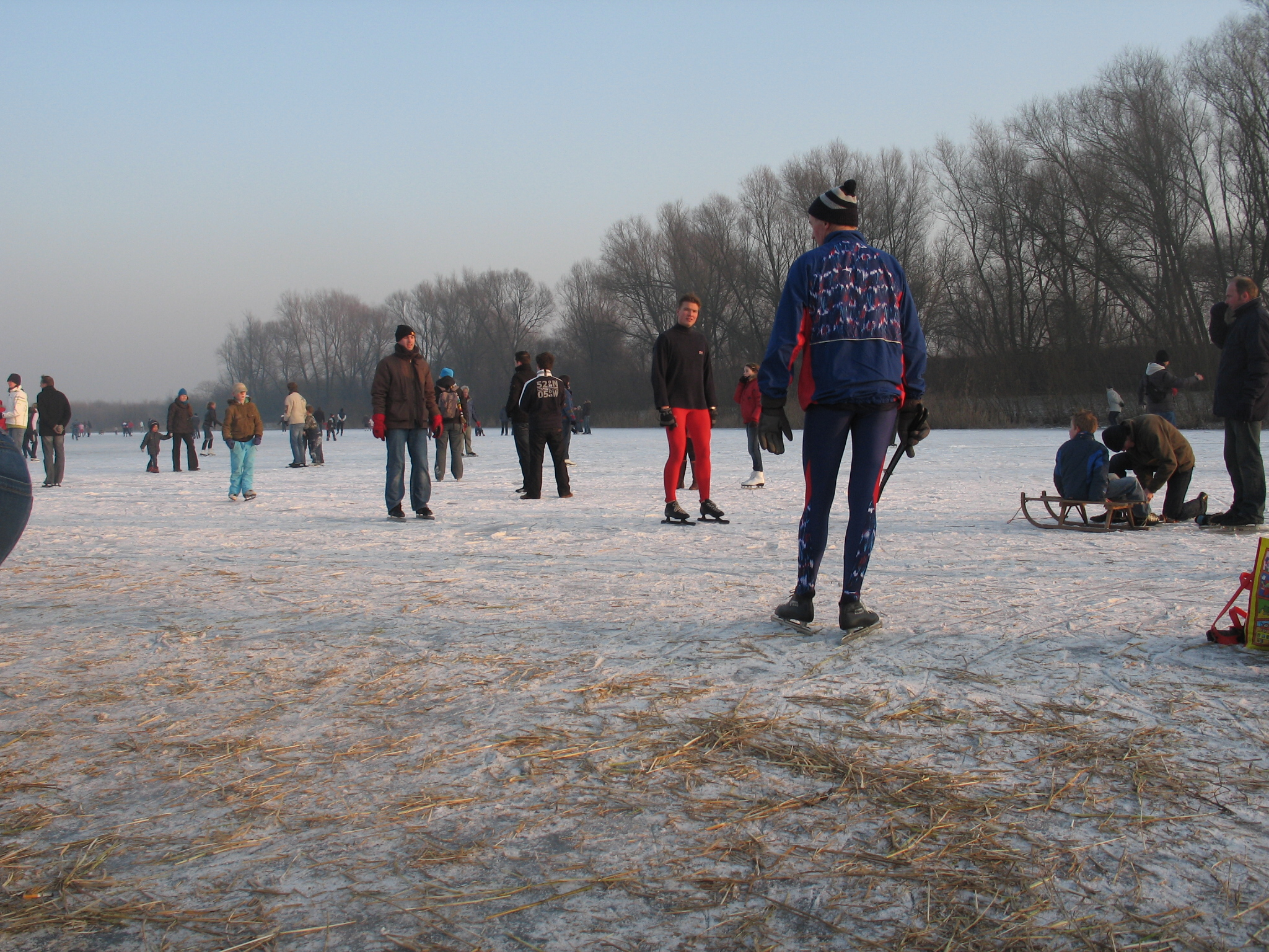 Skating in Wageningen